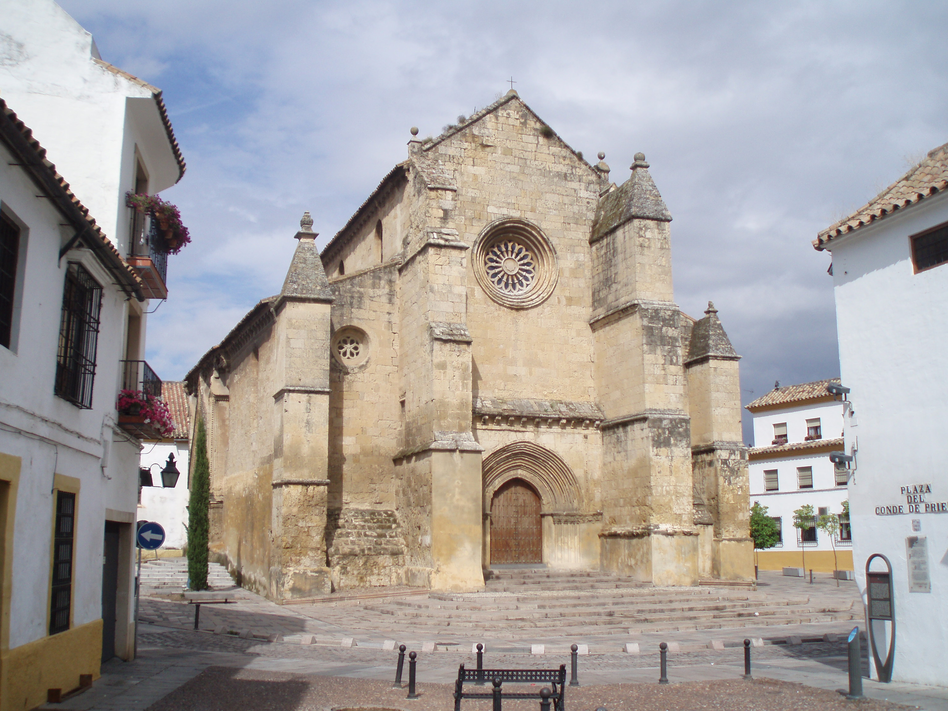 Church of Santa Marina of Aguas Santas of Córdoba (Spain)